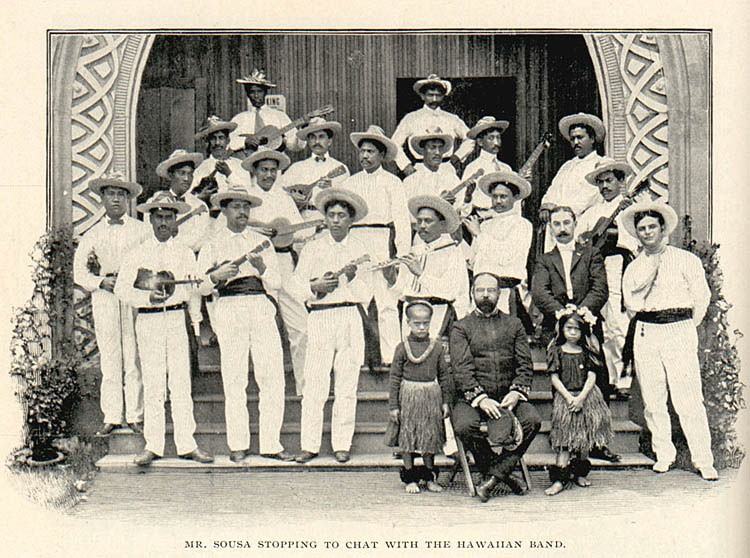 John Philip Sousa in Hawaii in 1901 with the Hawaiian Band, most of whose members, like Sousa, are Portuguese